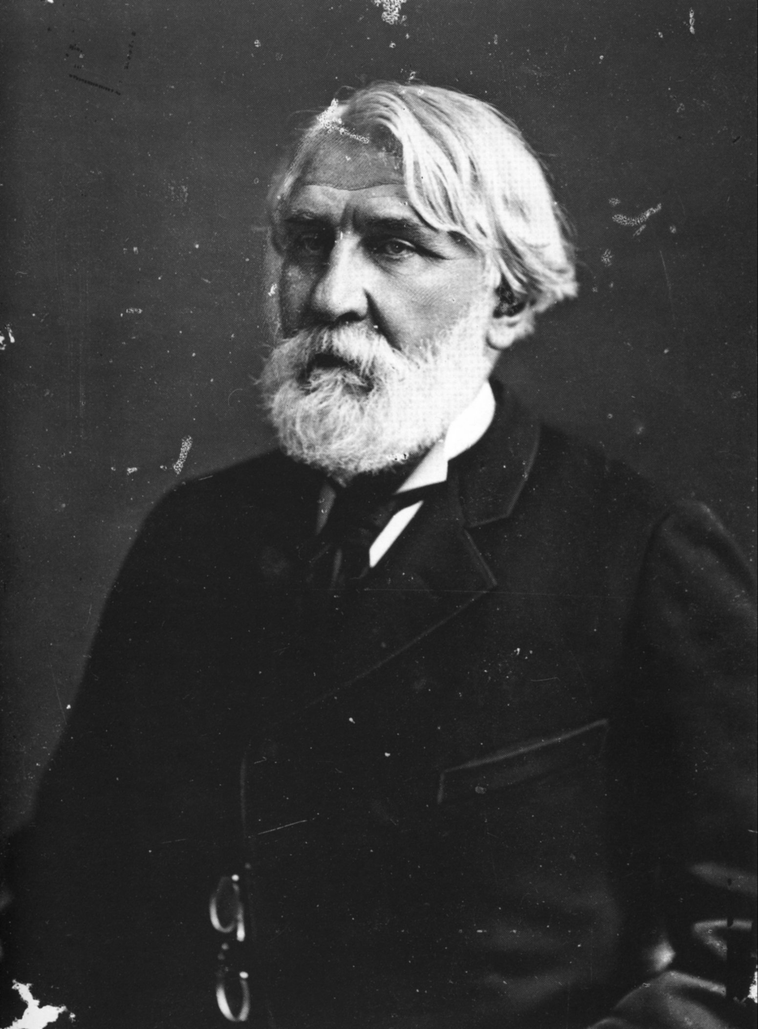 Photography of Ivan Tourgueniev by Félix Nadar